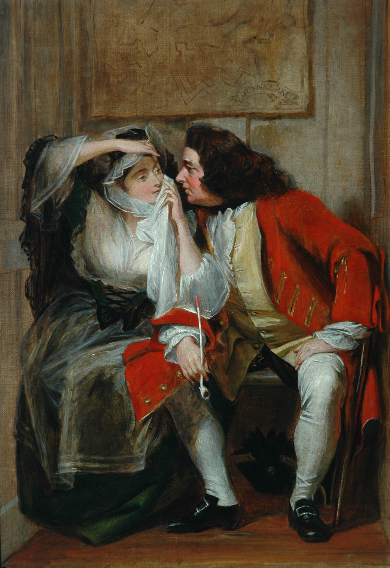 This painting shows two of the characters in Sterne's 'Tristram Shandy', Uncle Toby and the Widow Wadman. Inscribed on the stretcher is the note: 'This was a sketch only but C. R. Leslie finished it for me in May 1848'. It is believed that the model for Uncle Toby was the actor Jack Bannister (1760–1836) a great friend of Leslie’s. This was Leslie’s most famous composition which he painted several times. For the Victorians the image became an instantly recognisable symbol of flirtatiousness. The situation represented is that of Widow Wadman inviting Uncle Toby to help her remove an object from her eye. Uncle Toby is mesmerised by the proximity of the Widow’s beauty which causes the old soldier to fall head-over-heels in love with her. The image was used as a design for Pratt Potlids in advertising. There are larger versions of this painting in both the V&A and Tate but evidence on the stretcher suggests that this painting was made from the original drawing.